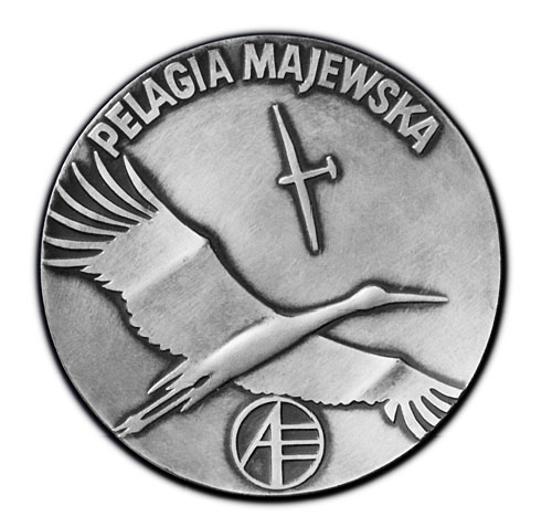 Obverse of the Pelagia Majewska Medal owned by Hana Zejdowa